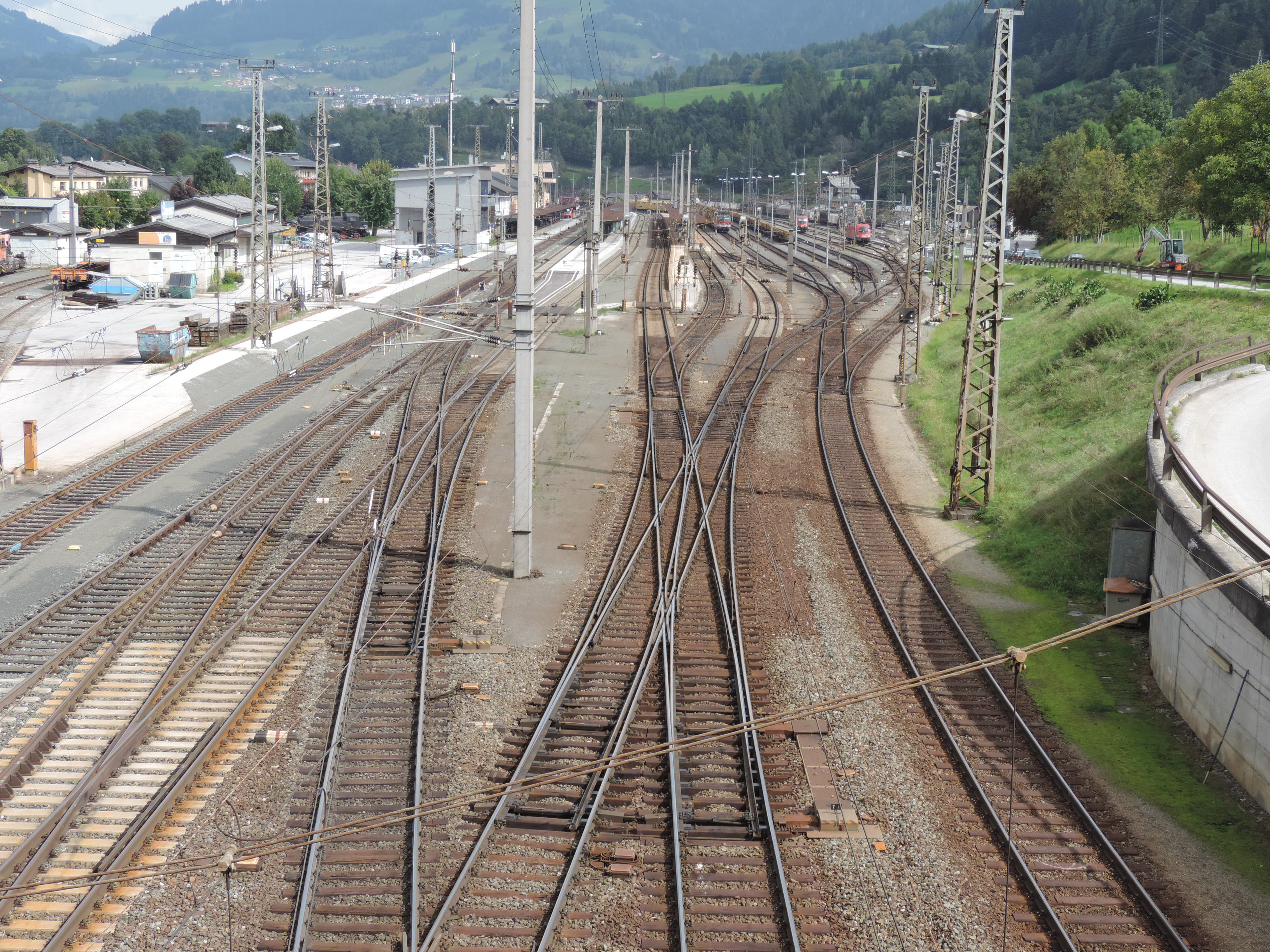 train station Schwarzach-St. Veit in Salzburg